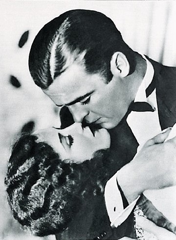 Neil Hamilton e Doris Hill (foto di scena per il film The Studio Murder Mystery)